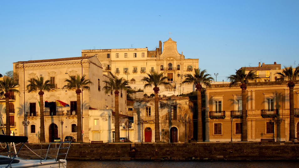 Milazzo